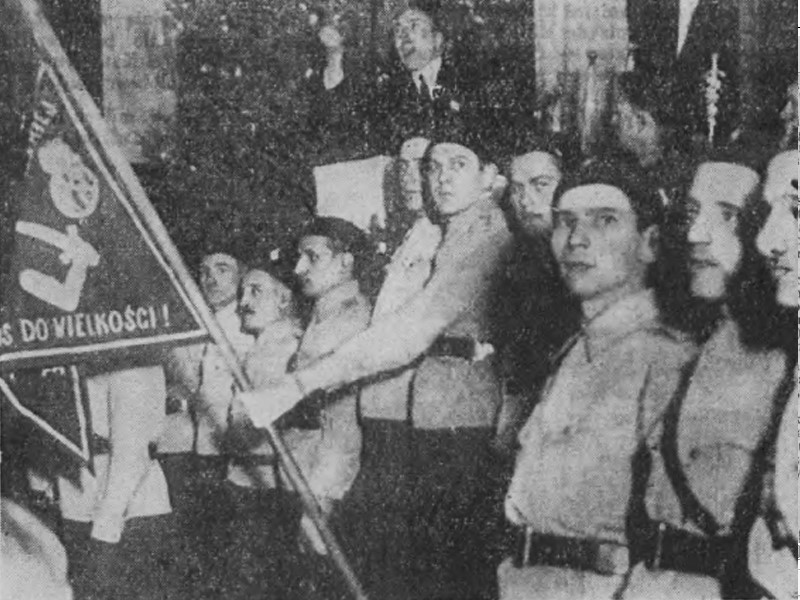 Meeting of Stronnictwo Narodowe in Poznań. Kazimierz Kowalski is adressing the party members.